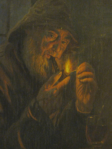 Oil, Inscribed Hamburg Signed & Dated Verso 1923, 29 x 19